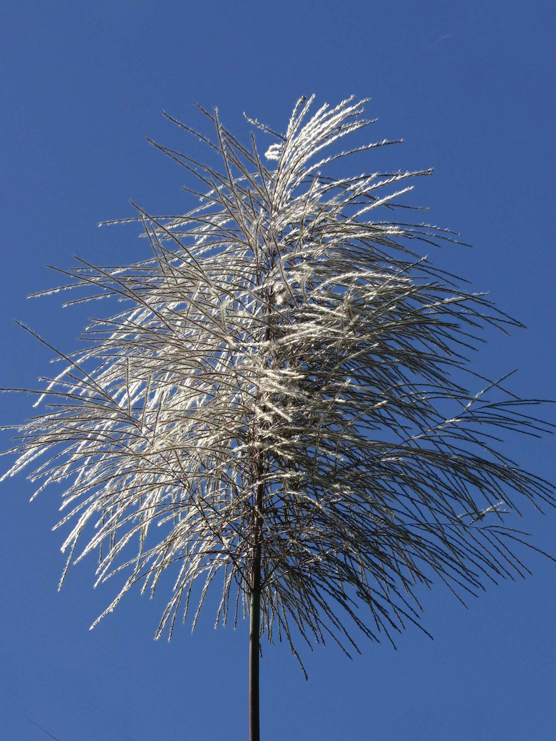 Sugar cane flower in December in Dominica